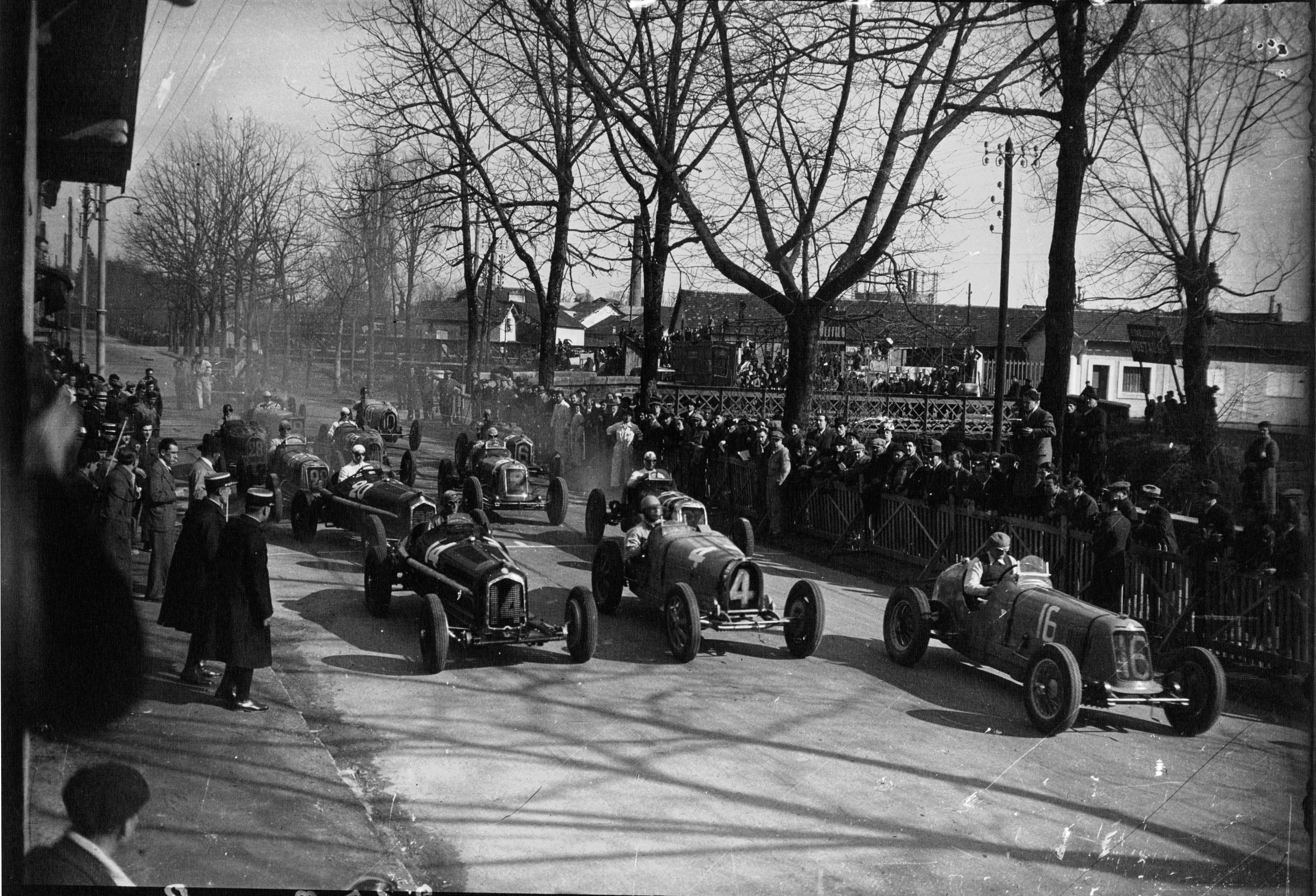 Start of the 1935 Grand Prix de Pau